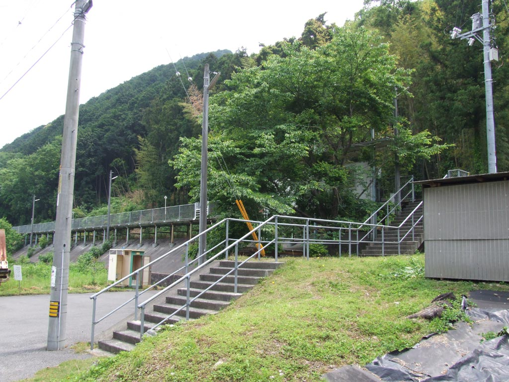 Shuchi-kasagami Station Nishikigawa Railway Nishikigawa-Seiryu Line.